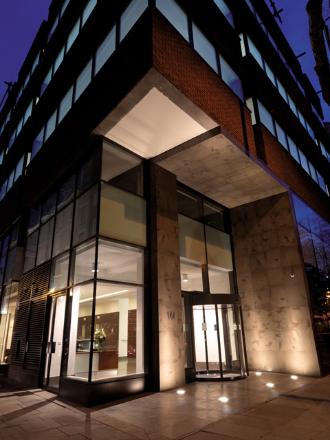 The headquarters of the Hogarth Worldwide Limited company.